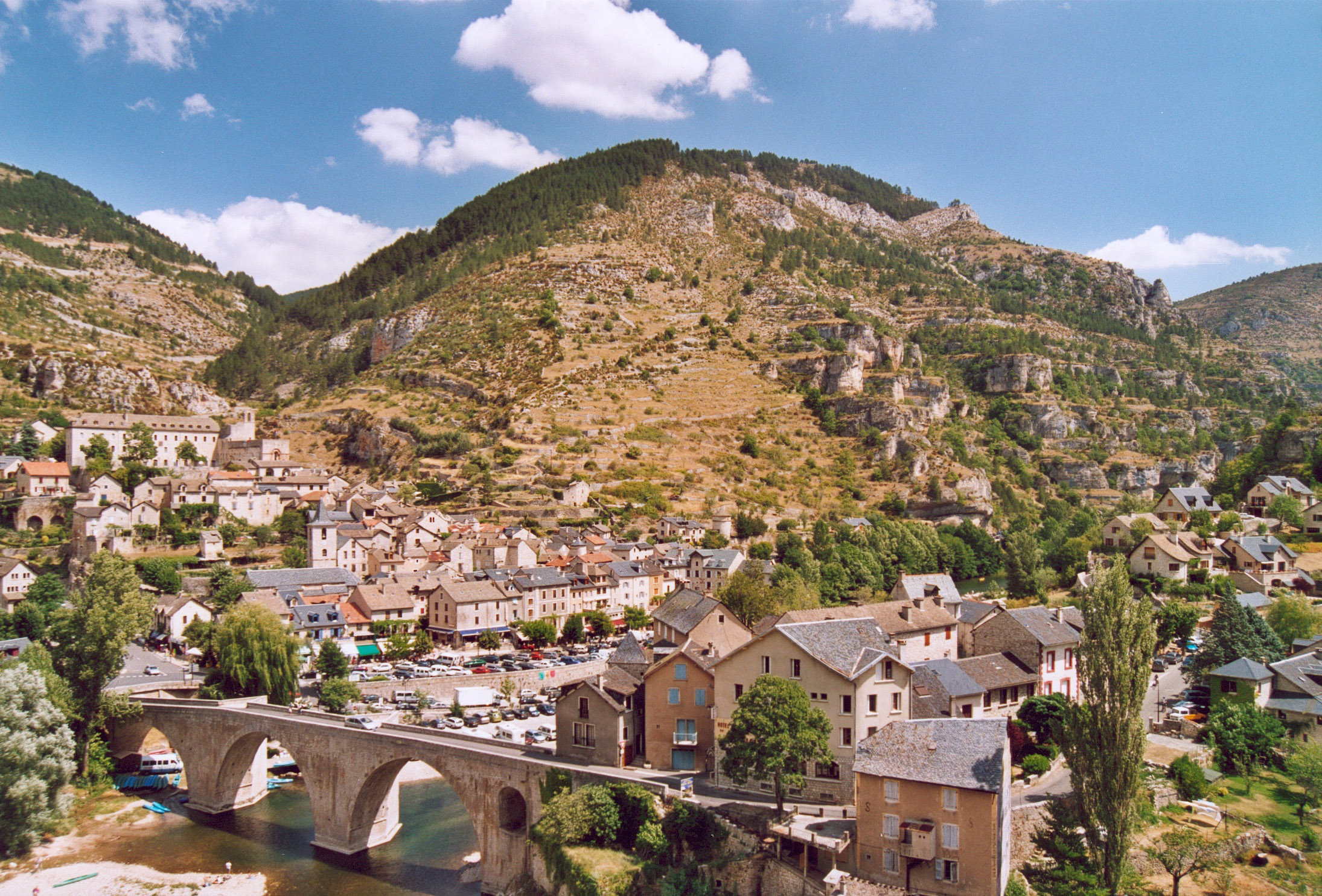 Sainte-Enimie, Lozère, France.